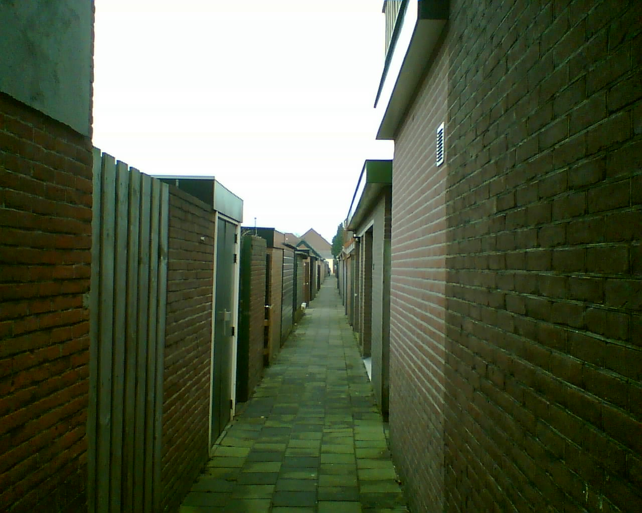 Brandgang, back of the Prinsenlaan in Woerden, Holland. Made feb 2007 with my Nokia 1Mpx cameraphone.